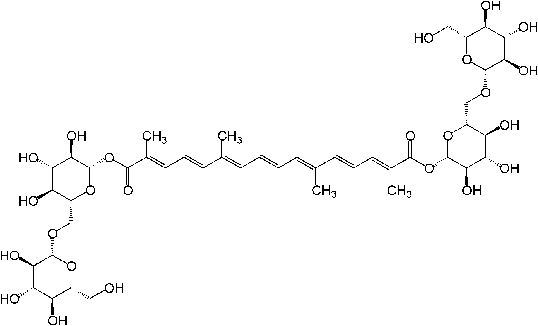 Chemical structure of carotenoid crocin - trans-crocetin di-(β-D-gentiobiosyl) ester. Saffron's golden yellow-orange colour is primarily the result of α-crocin. Created with ChemDraw.